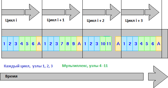 cycle